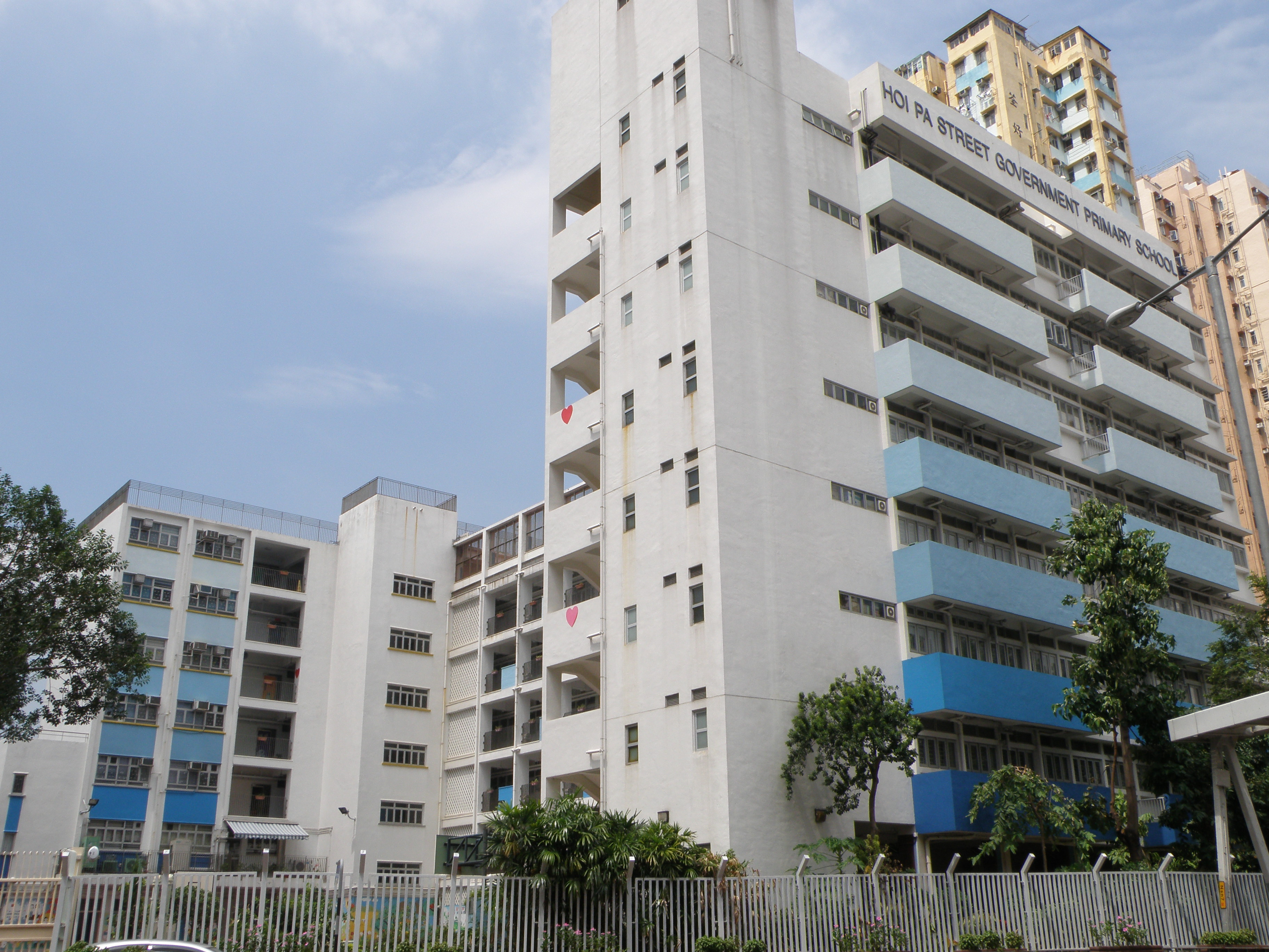 Hoi Pa Street Government Primary School in Tsuen Wan, Hong Kong.